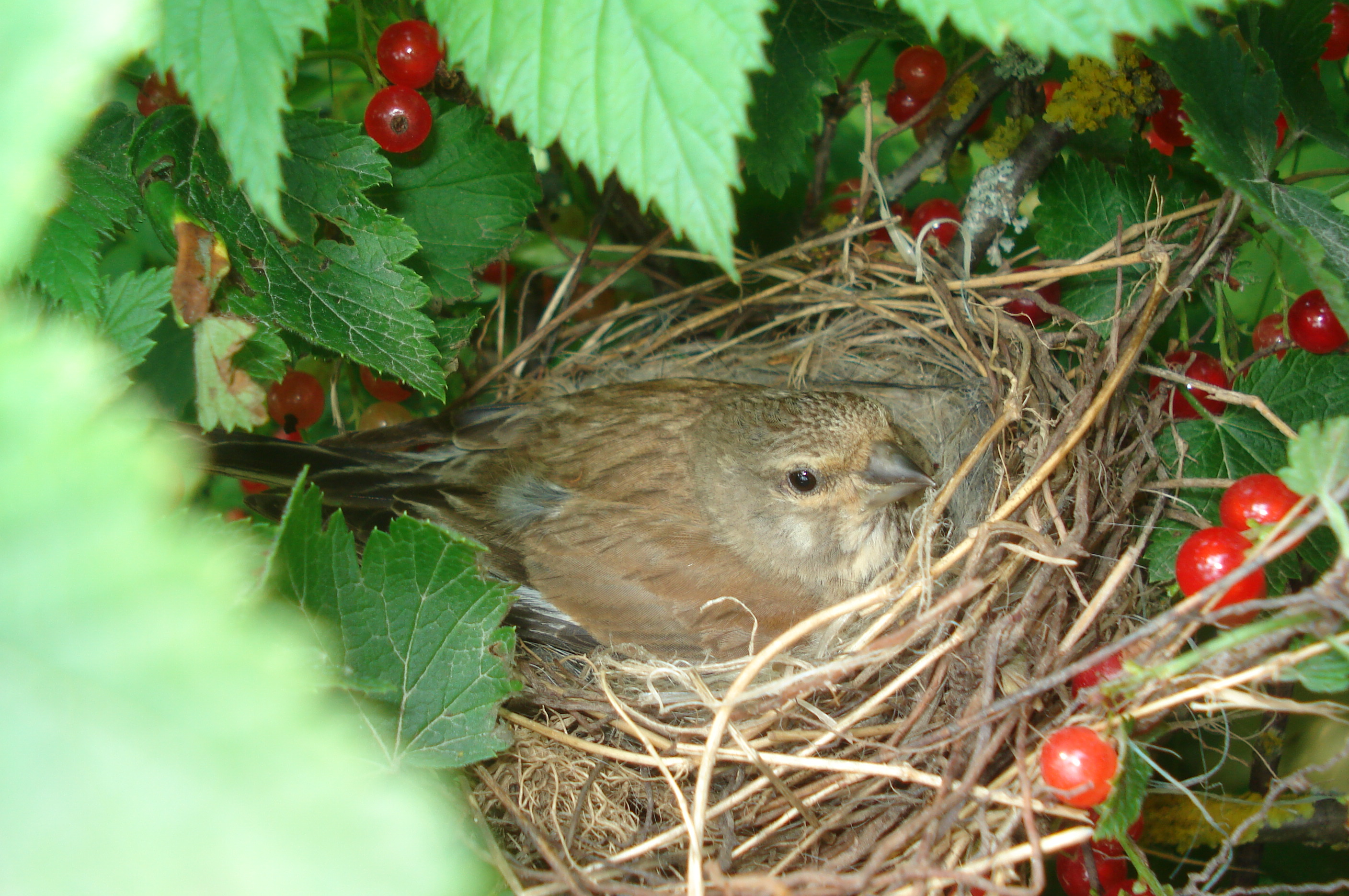 Linnet (Acanthis cannabina) - Female